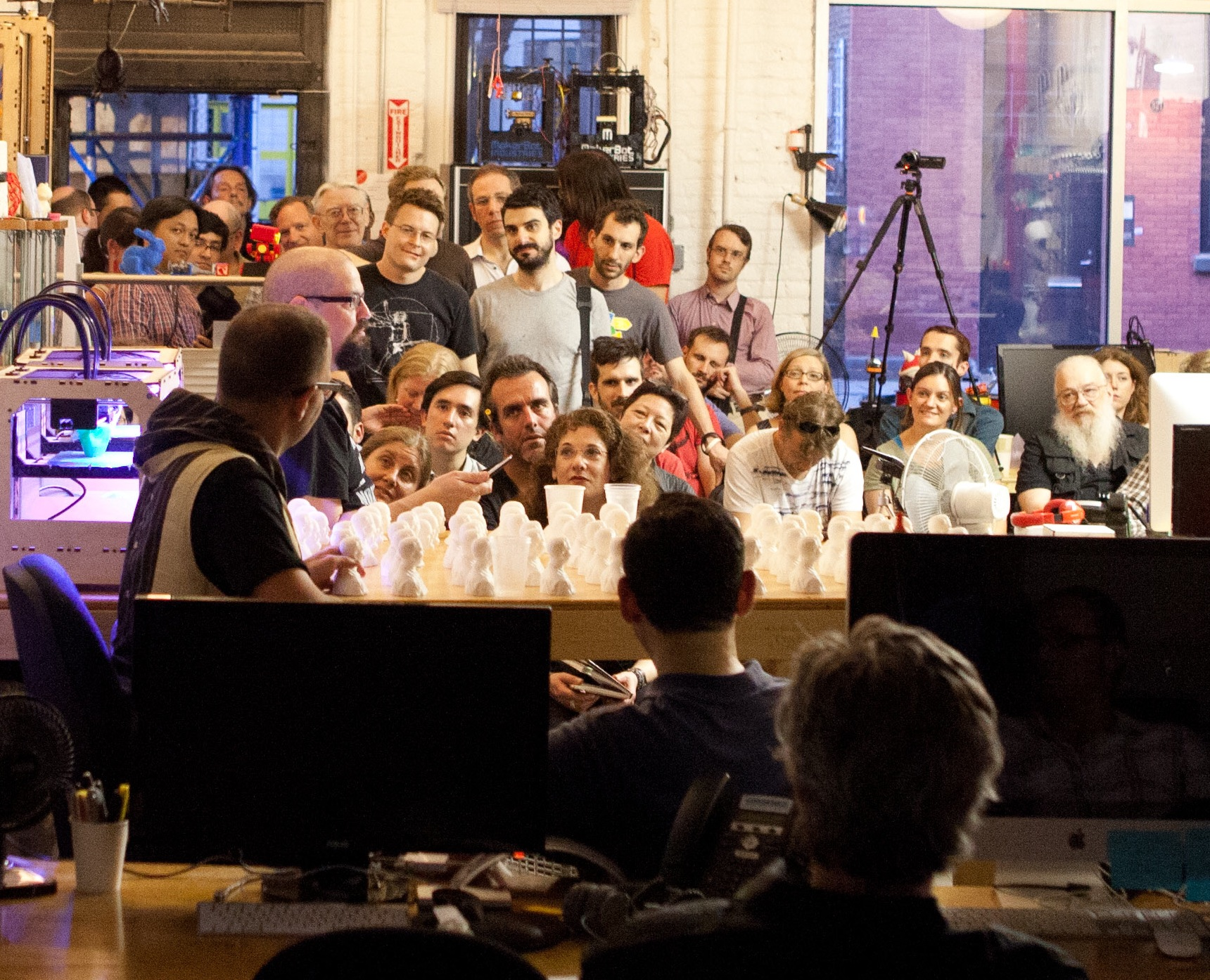 Charles Stross and Cory Doctorow read from their book, The Rapture of the Nerds at Makerbot's former Brooklyn factory on Dean street in 2012.